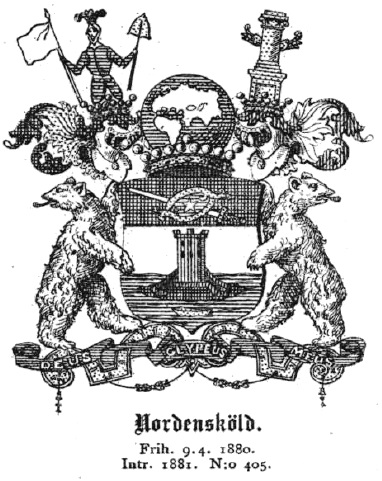 Coat of arms of baron Nordenskiöld nr 405